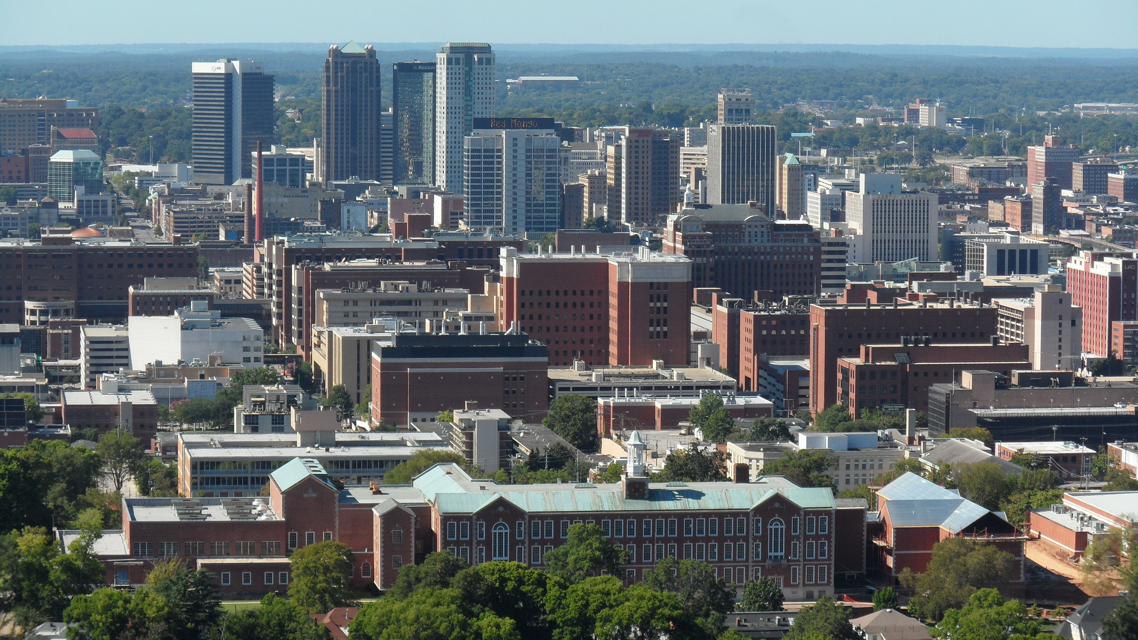 Birmingham, Alabama from Vulcan Park